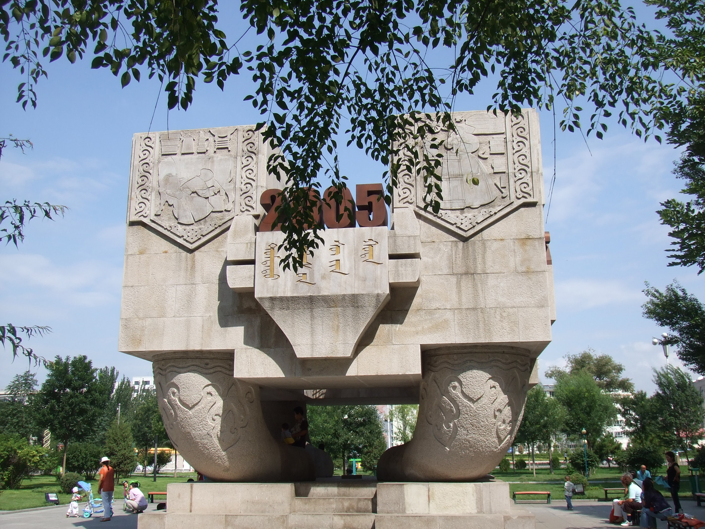 The sculpture of Milk Capital symbol in Hohhot, Inner Mongolia, China